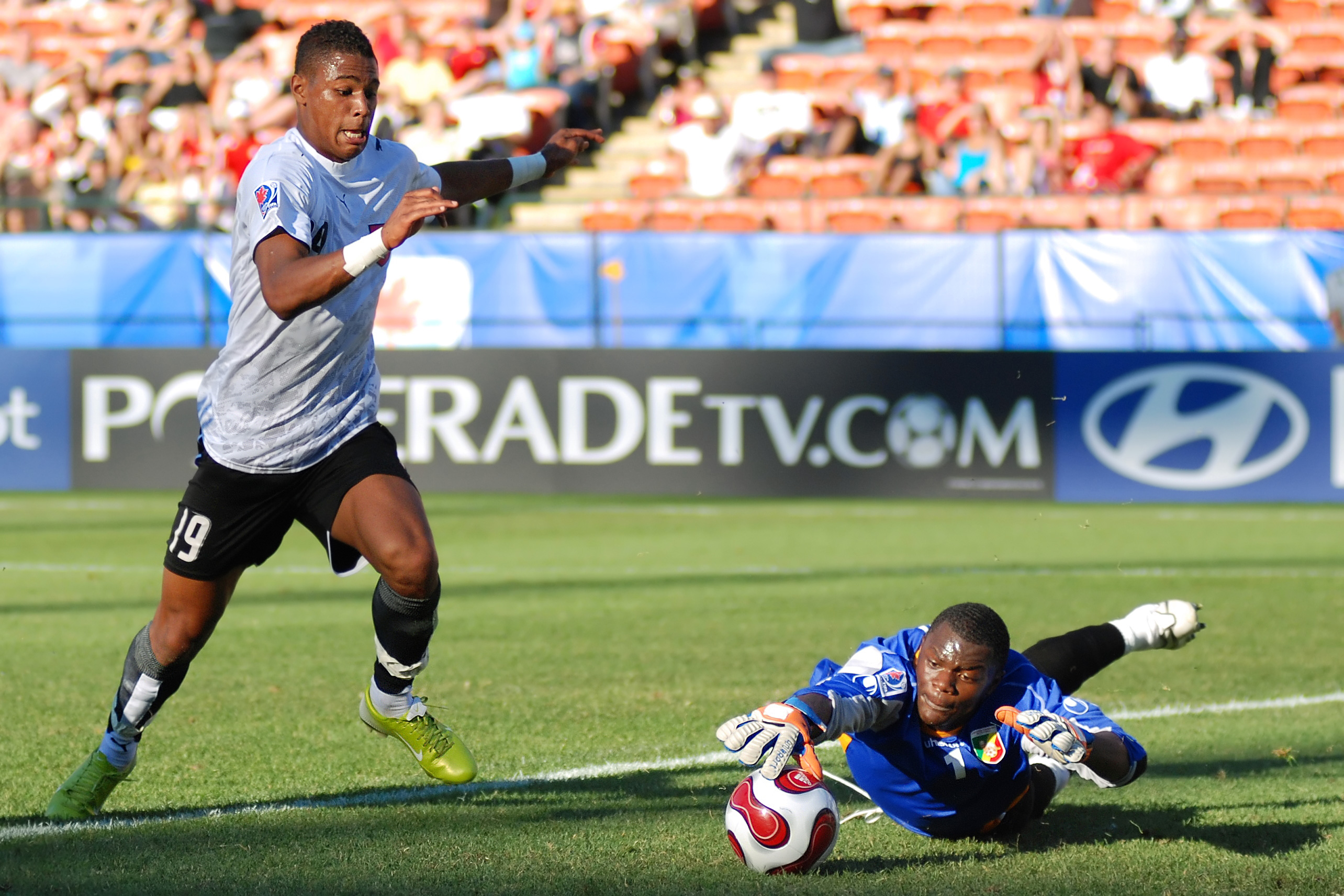 Austrian Forward Rubin Okotie tries to score on Congo Goalkeeper Destin Onka at the 2007 FIFA U-20 World Cup. Onka makes the save. Shot at Commonwealth Stadium, Edmonton, Alberta, Canada.